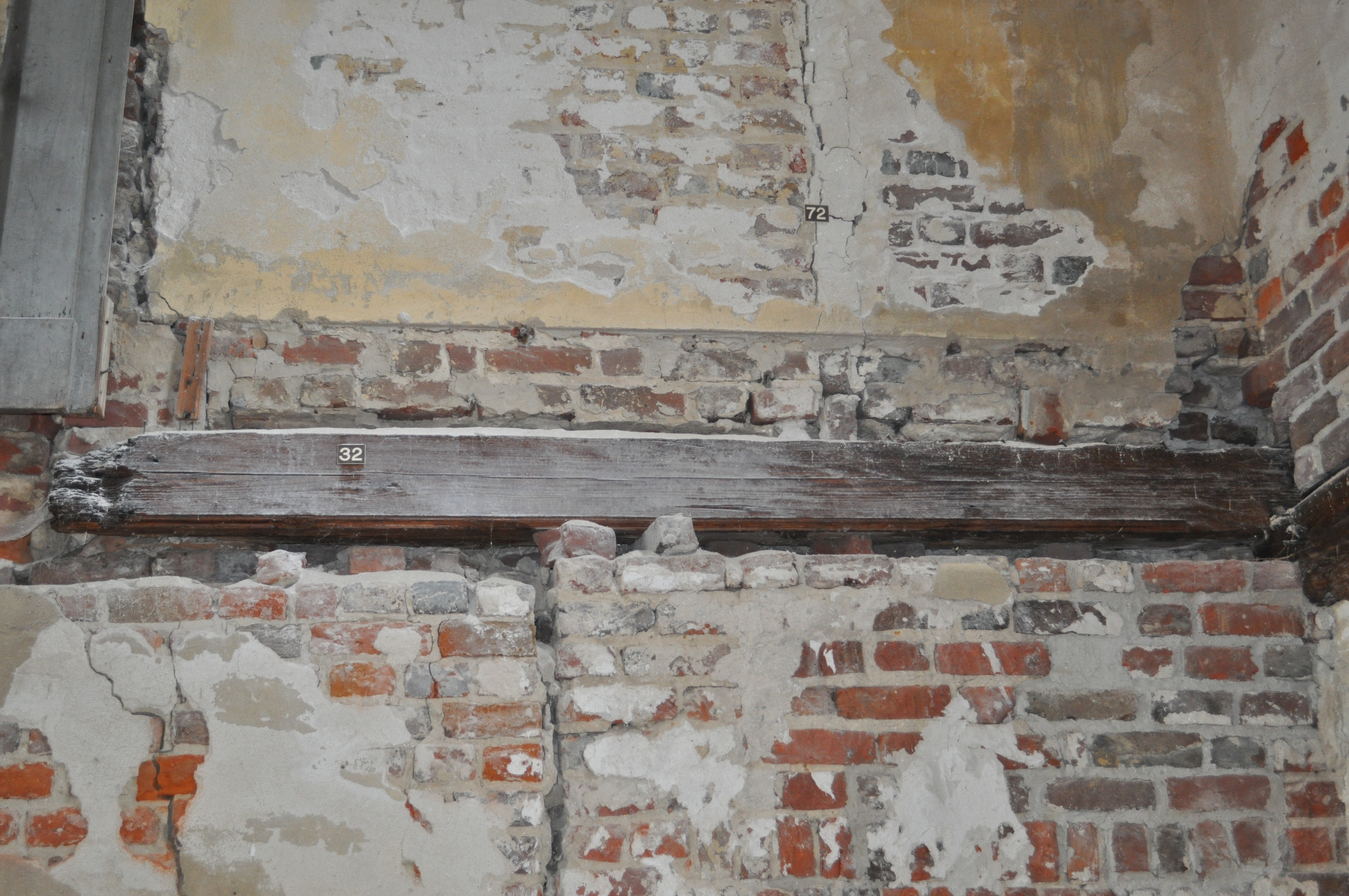 Early eighteenth-century beam in the hall of the Matthew Jones House.